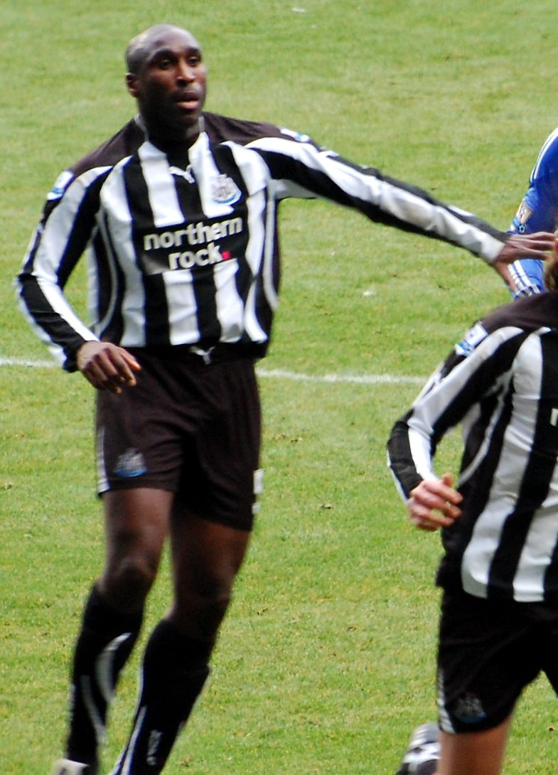 Sol Campbell - newcastle, cropped. et al prepare for incoming football